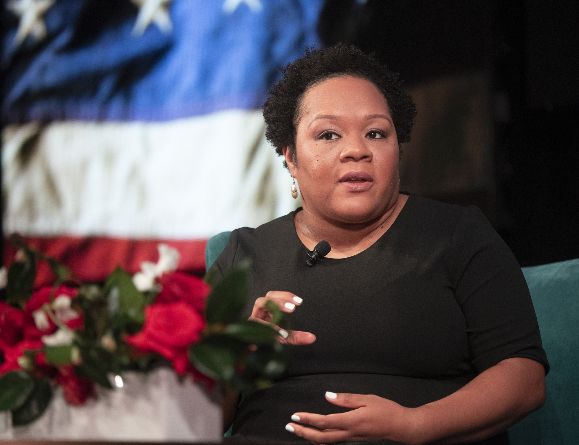 Journalists explore the topic of race and the media at The Summit on Race in America at the LBJ Presidential Library on Wednesday, April 10, 2019. Yamiche Alcindor White House correspondent for the PBS NewsHour discusses whether the media covers race comprehensively and fairly, the growing perception of media bias, and why journalists of color are underrepresented in newsrooms. 04/10/2019 LBJ Library photo by Jay Godwin